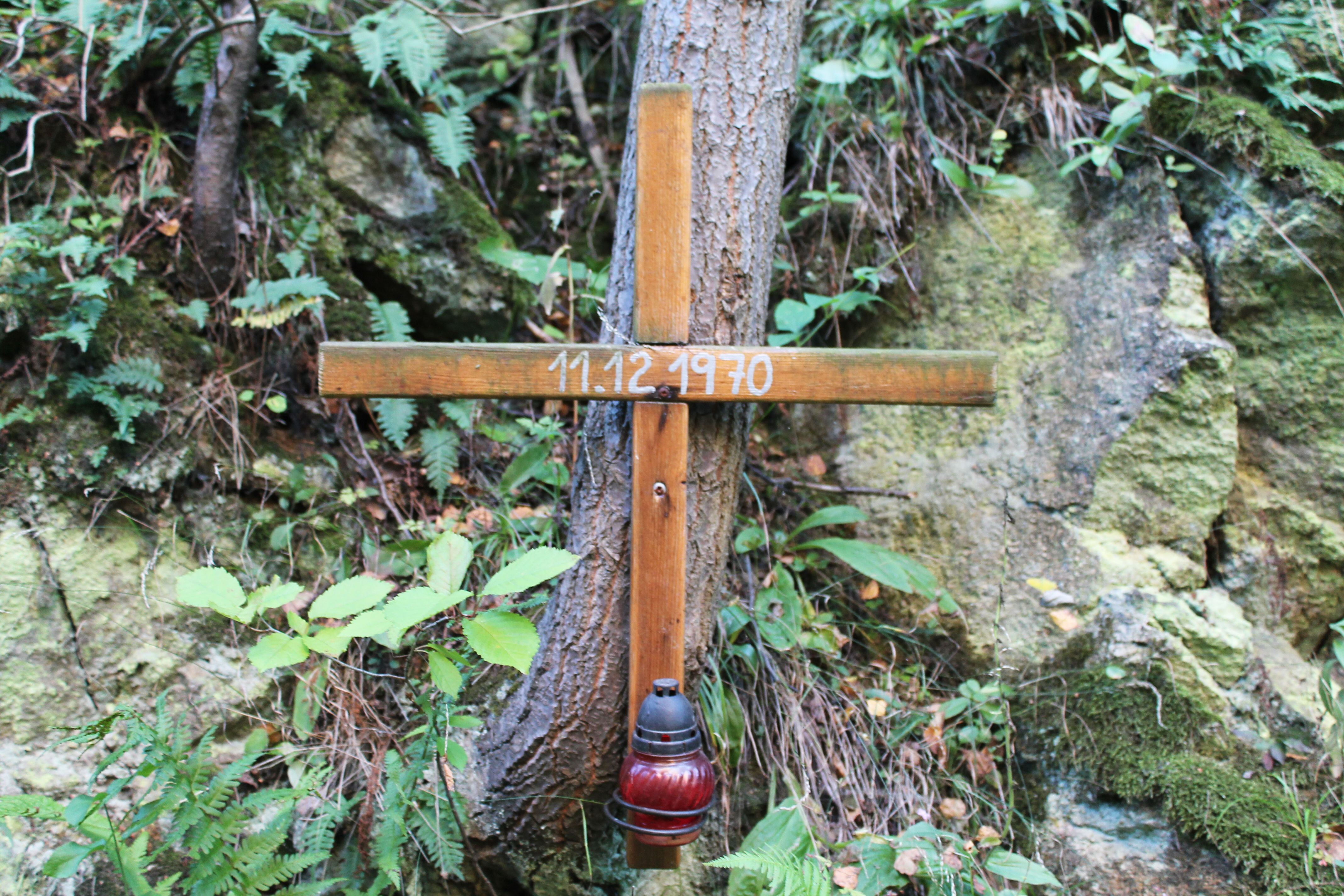 1970 train accident memorial near to railway bridge of Brno - Havlíčkův Brod railway line over the Libochůvka near to Kutiny, Žďárec/Lubné, Brno-Country District, Czech Republic